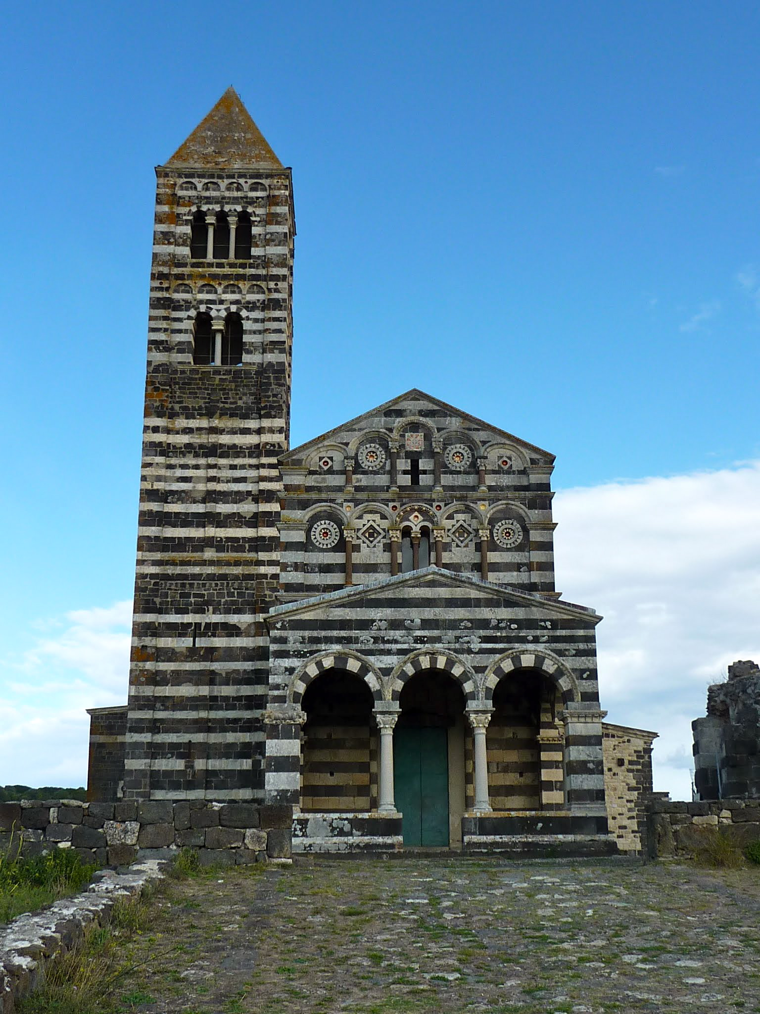 View of the church